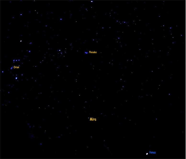 You could see Mira below Pleiades and above Venus